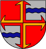 Coat of arms of Peffingen